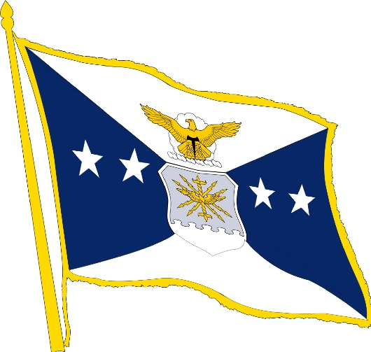 Flag of the Vice Chief of Staff of the Air Force